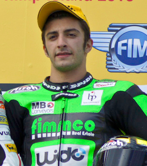 Andrea Iannone at the Phillip Island Moto2 podium ceremony in 2010 (cropped from this file)